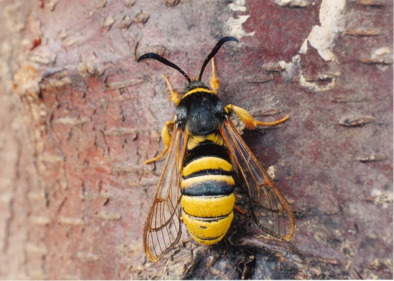 Lunar Hornet Moth (Sesia bembeciformis) Location: unknown Keywords: mimicry --- nl: Gekraagde wespvlinder (Sesia bembeciformis) de: Großer Weiden-Glasflügler (Sesia bembeciformis) no: Stor seljeglassvinge (Sesia bembeciformis)